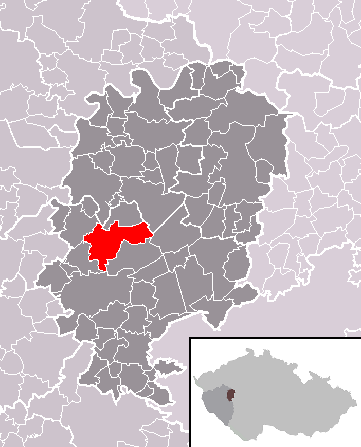 Location of Osek municipality within Rokycany District and within identical administrative area of Rokycany as a Municipality with Extended Competence.